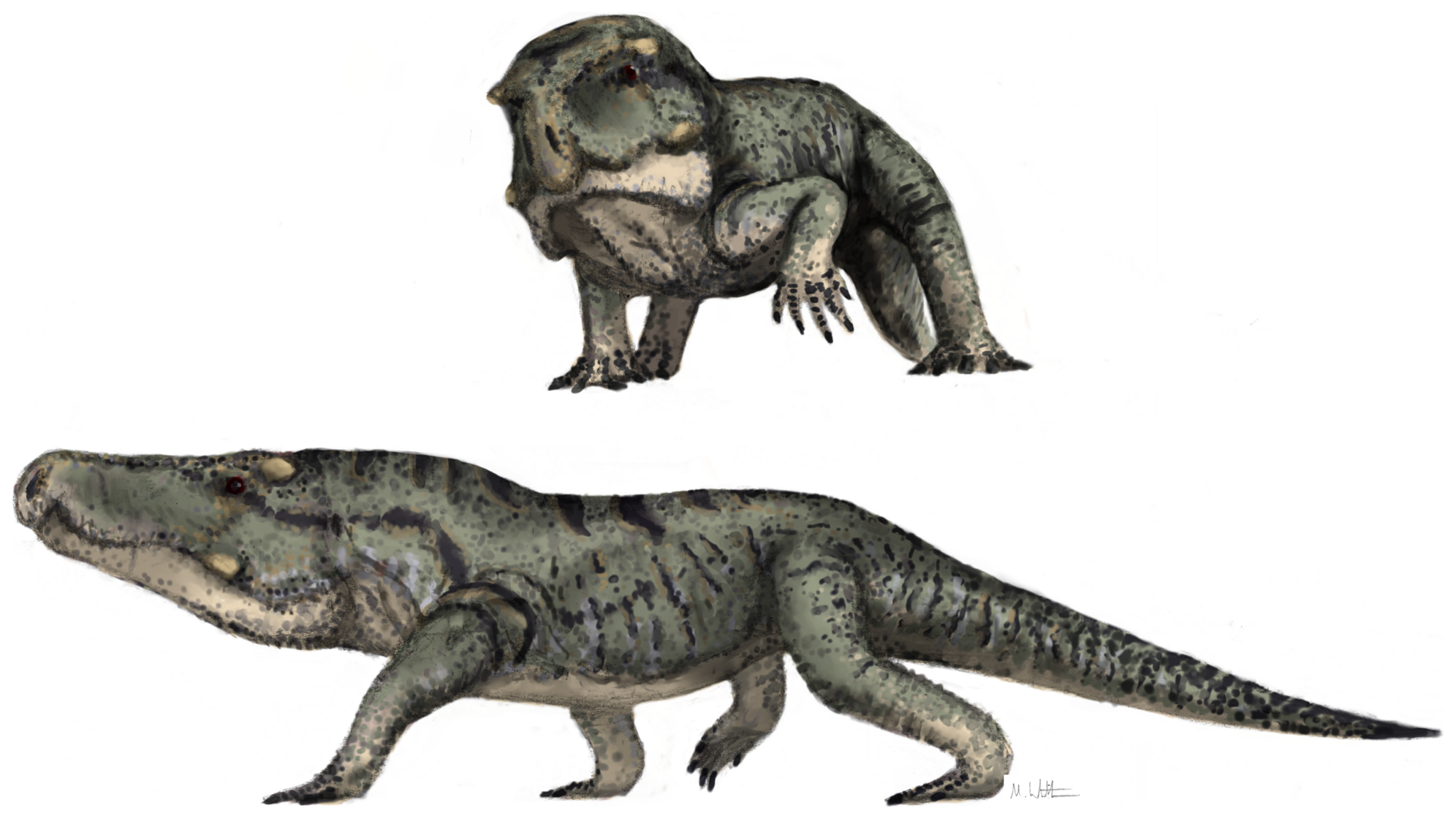 Life reconstruction of Garjainia madiba sp. nov. Total adult body length would have been approximately 2.5 metres, based on comparisons with G. prima. Reconstruction by Mark Witton.